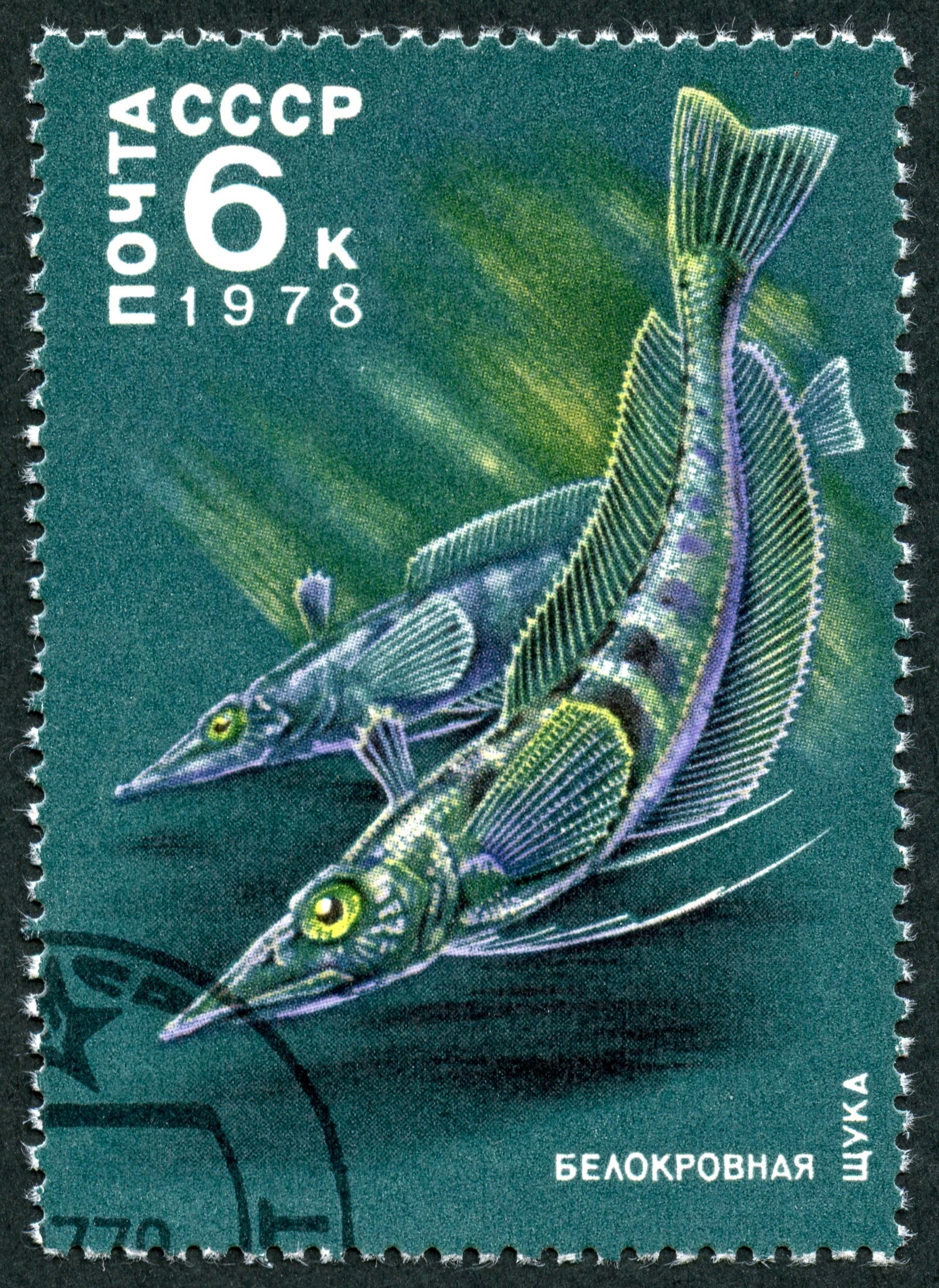 A USSR stamp